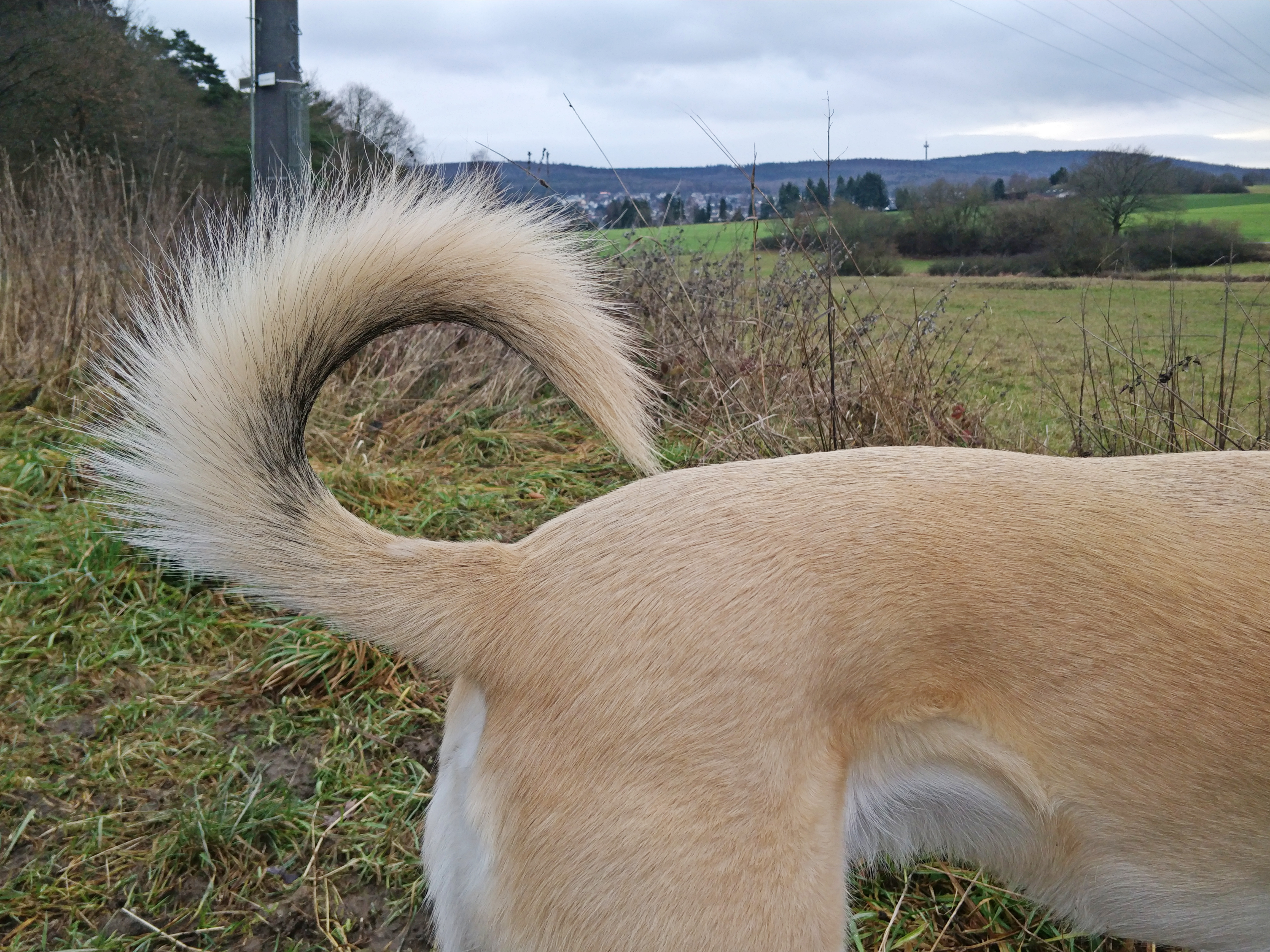 Erect dog tail (the dog is a mix of unknown parentage)